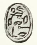 Scarab seal of Yakareb (Yekeb-Baal), second intermediate period, possibly 14th dynasty or vassal of the Hyksos